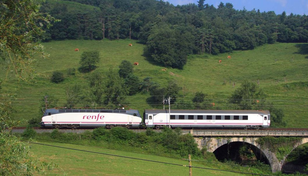 Arco Camino de Santiago Bilbao - Vigo. Renfe 252 locomotive + Renfe 2000 coach in Saratxo.